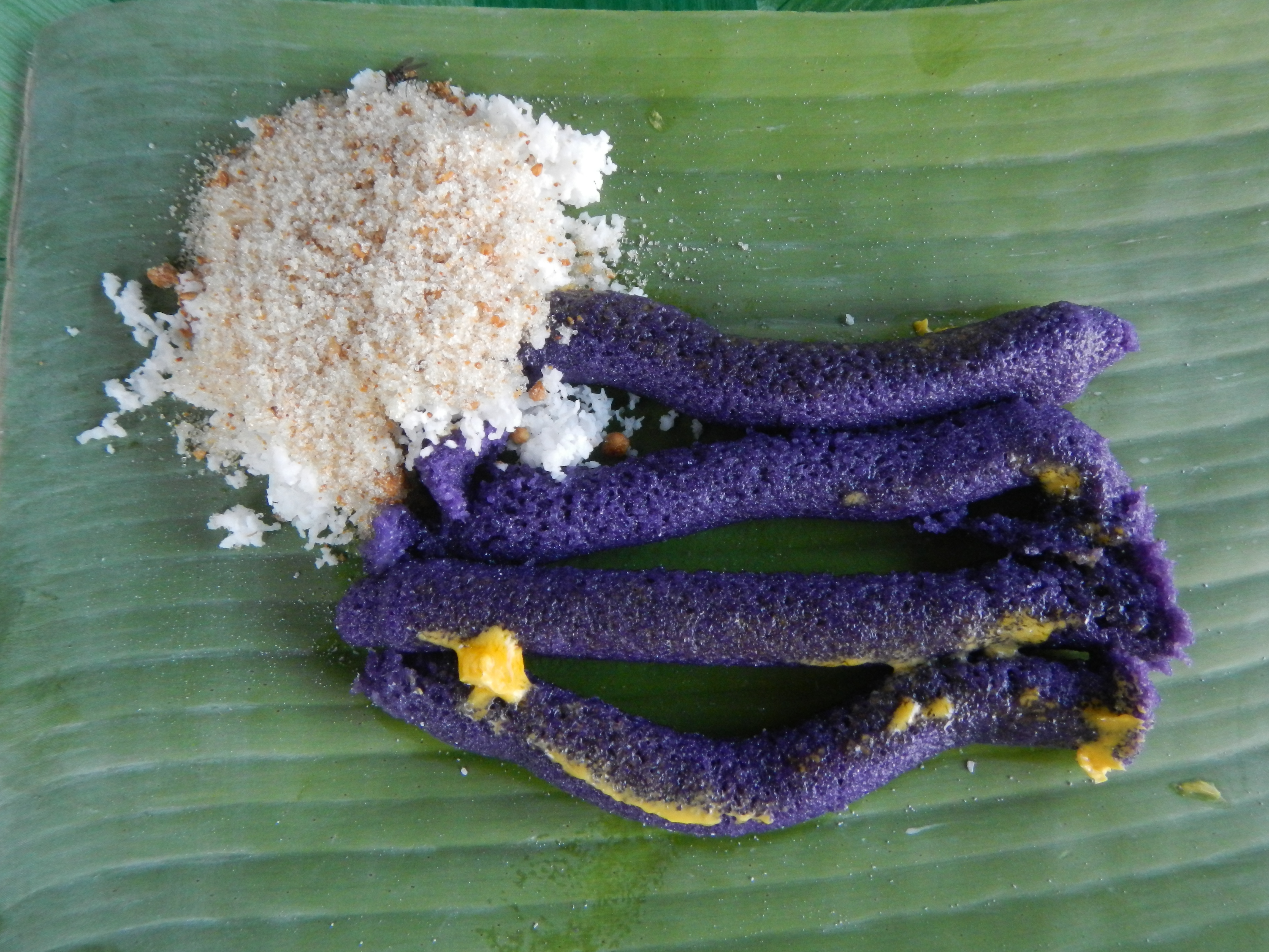 Saint Joseph Chapel near Cambaog, Bustos, Bulacan Elementary and National High Schools in Barangay Cambaog, Bustos, Bulacan, (in C.L. Hilario Highway corner General Alejo Santos Highway, Bustos-Angat, Bulacan accessed from Doña Remedios Trinidad Highway, or Maharlika Highway (Cagayan Valley Road, San Rafael-San Ildefonso, Bulacan section) of Pan-Philippine Highway in Cagayan Valley Road).